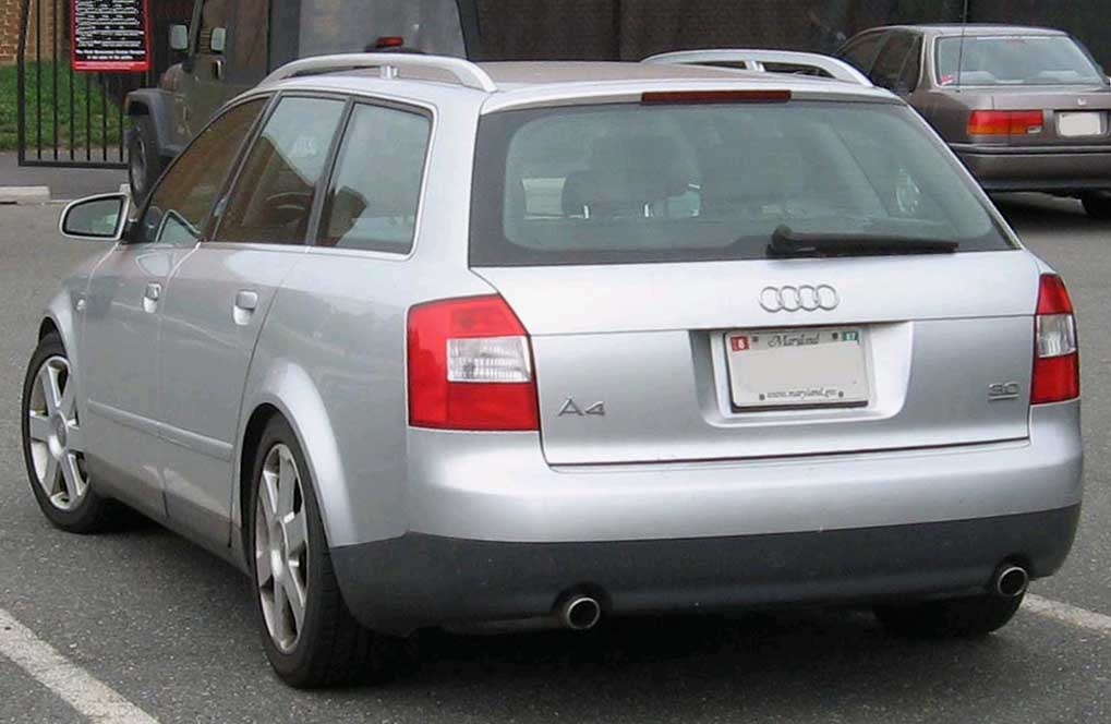 2002-2005 Audi A4 photographed in College Park, Maryland, USA.